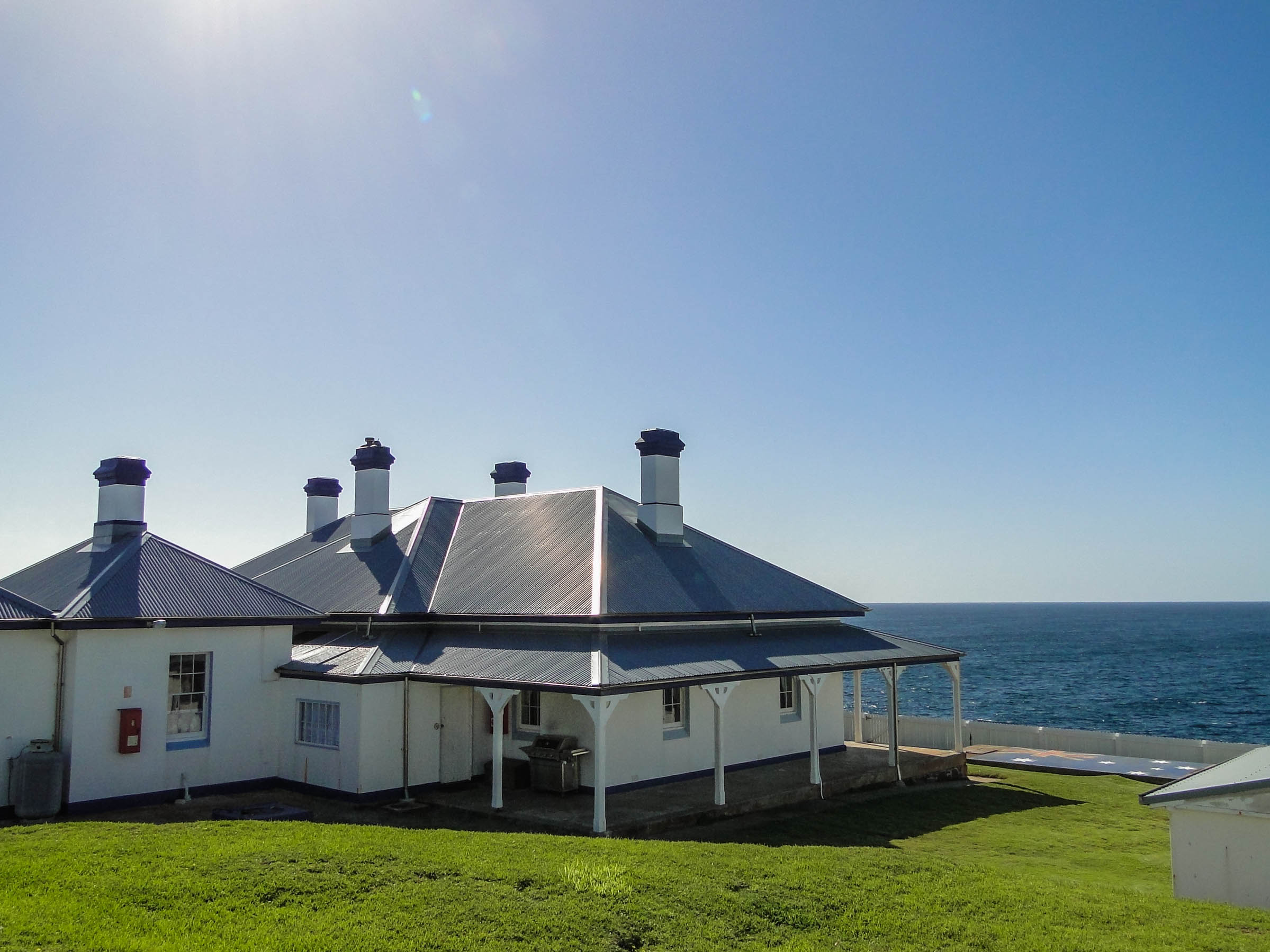 The lighthouse keeper's cottage at Green Cape, New South Wales.